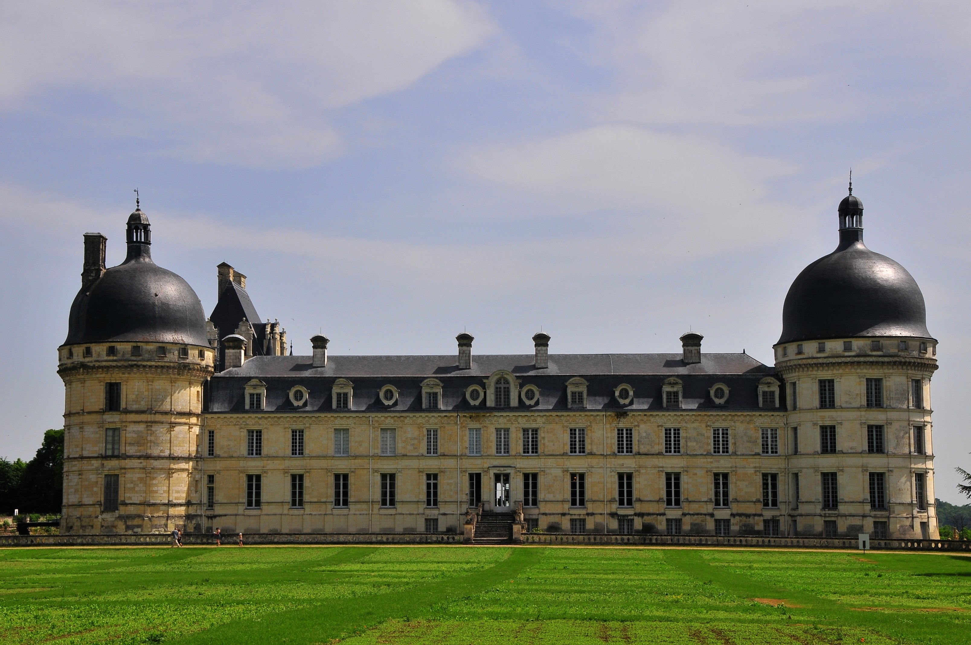 Eastern facade of the Château de Valençay